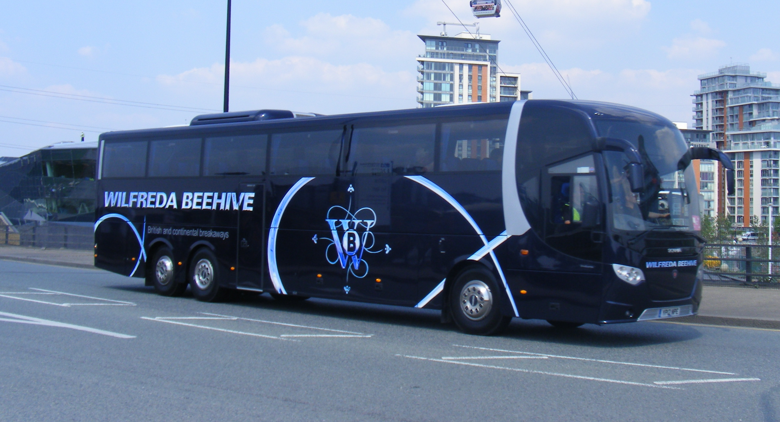 Description YP12 NPE, Wilfreda Beehive Left-hand drive Scania - Finnish made Lahden Autokori body.